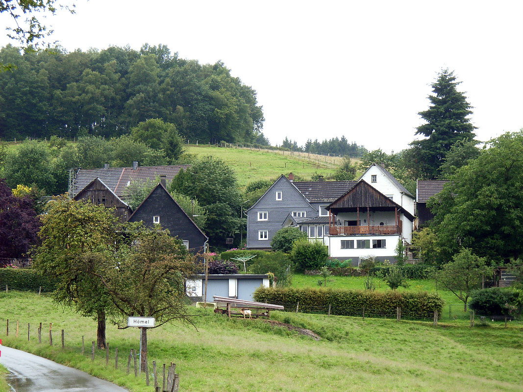 view of Hömel, district of Gummersbach, North Rhine-Westphalia, Germany